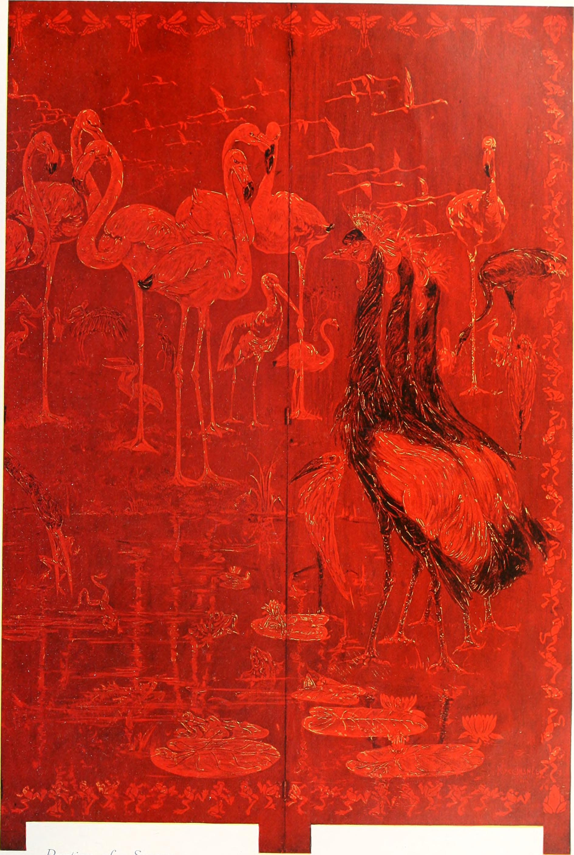 Flamingoes, by Robert Winthrop Chanler Title: International studio Year: 1897 (1890s) Authors: Subjects: Art Decoration and ornament Publisher: New York Text Appearing Before Image: Portion of a Screen byRobert 11 inthvop Chardez \S7 mMARINE Text Appearing After Image: Portion of a Screen by Robert Wlnthvop Chanlec FLAMINgOES mceRHACionAL y»rfuytww»/tw